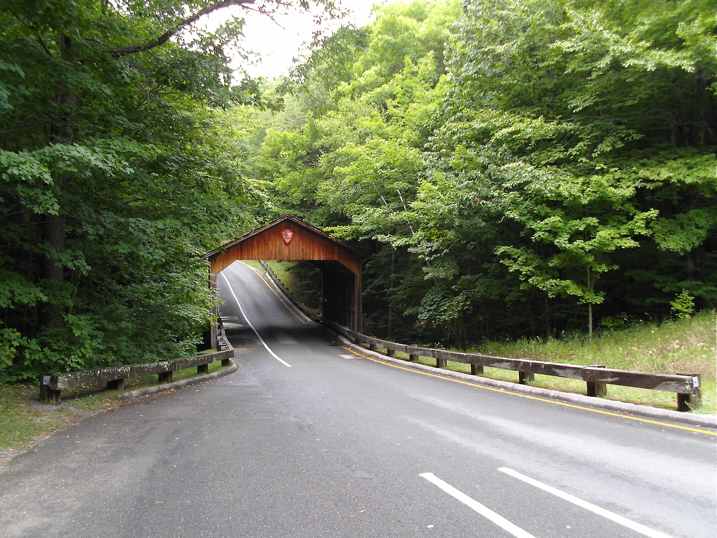 Covered bridge on the Pierce Scenic Drive within Sleeping Bear Dunes National Lakeshore in western Northern Michigan